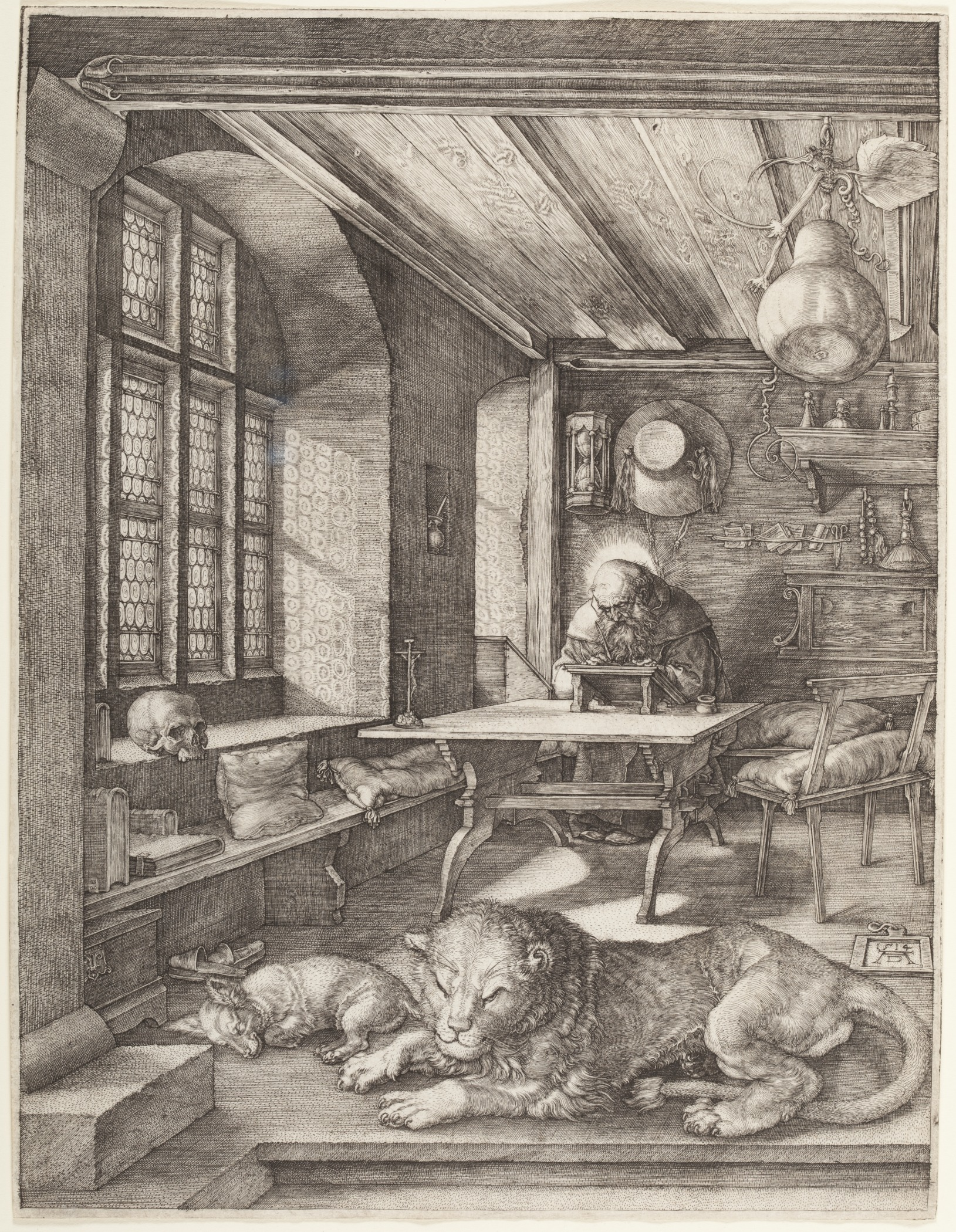 1514 Prints; engravings Engraving Gift of the 2012 Collectors Committee, with additional funds provided by the Prints and Drawings Council and Philippa Calnan (M.2012.31) Prints and Drawings